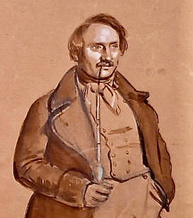 Work sketch for oil painting Stubenvoll